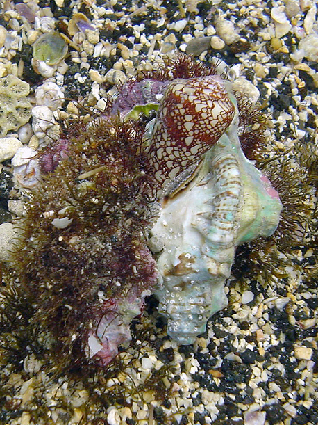 Conus pennaceus attacks pair of Monoplex nicobaricus.